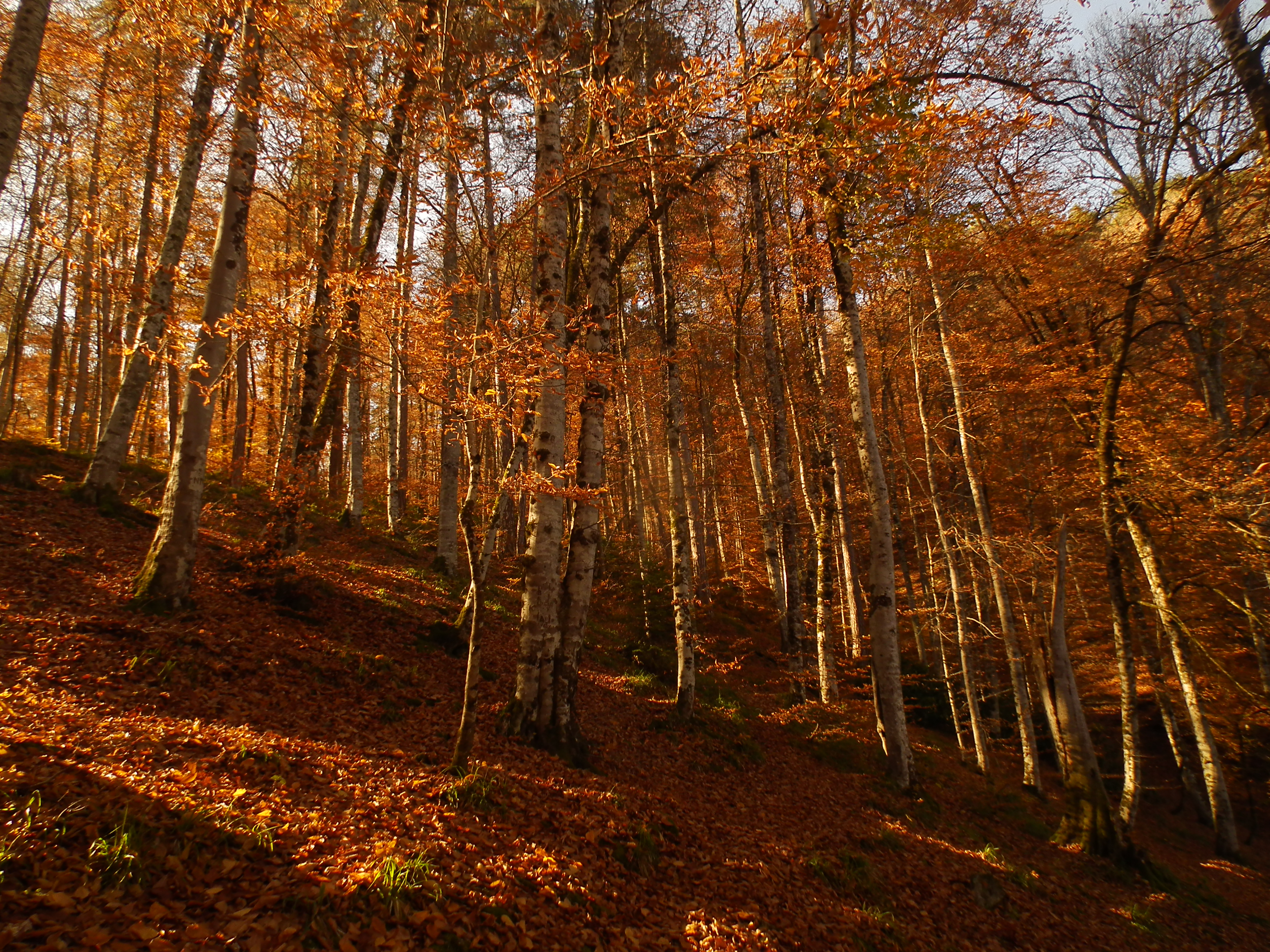 Bolu, Yedigoller National Park